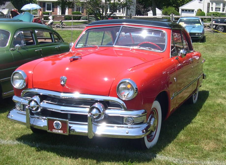 1951 Ford V8 Custom Deluxe Coupe Source: Photographed at the Bay State Antique Automobile Club's July 10, 2005 show at the Endicott Estate in Dedham, MA by User:Sfoskett